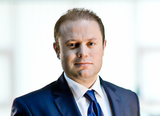 Joseph Muscat, Leader, Partit Laburista, Malta